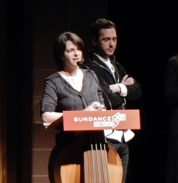 Stacie Passon at the Sundance Film Festival on January 24, 2013.